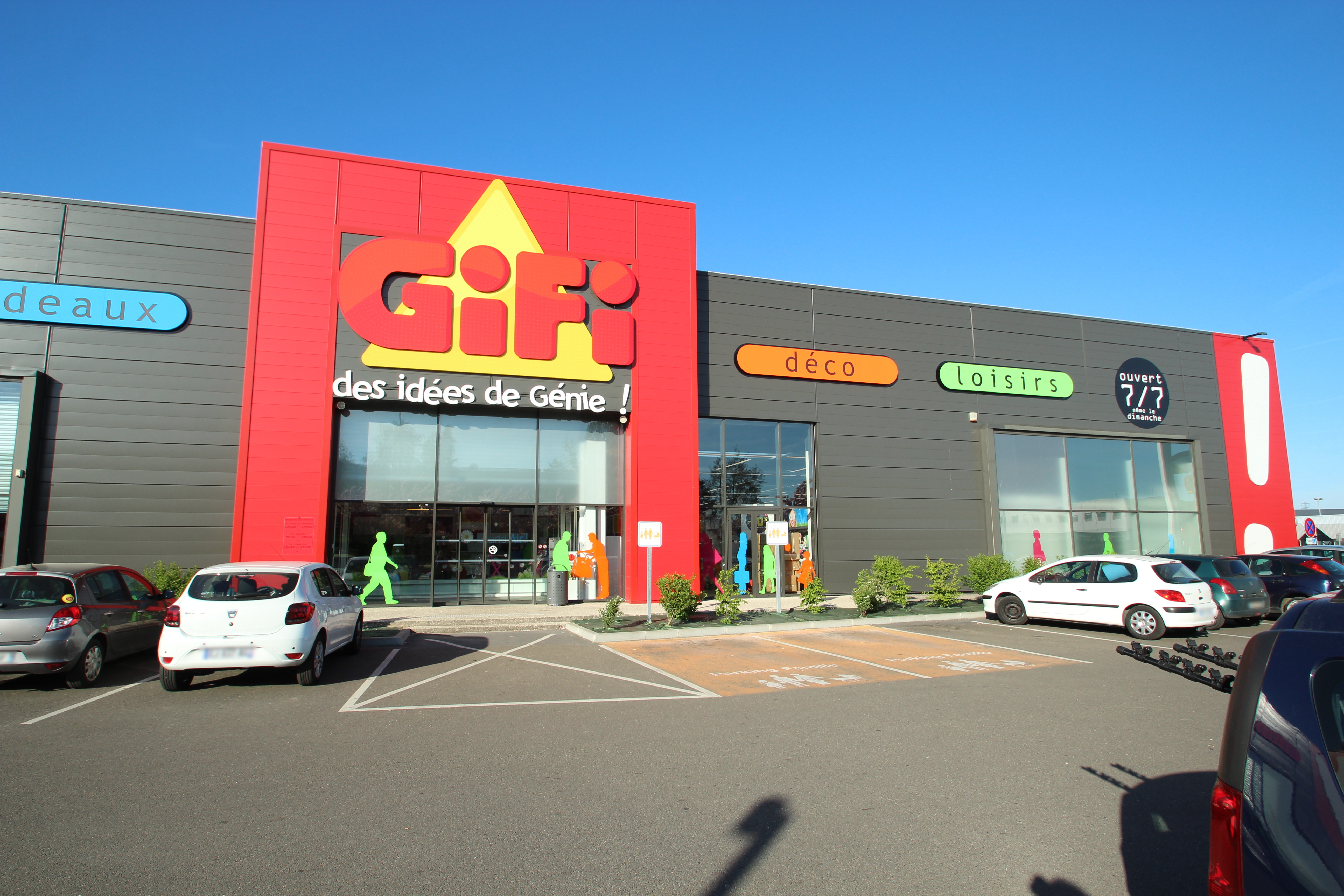 Gifi in Coignières, France. Object location48° 45′ 26.42″ N, 1° 55′ 49.22″ E